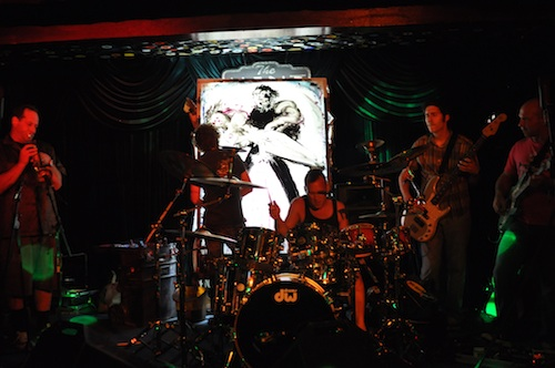 Banyan (feat: Stephen Perkins of Janes Addiction, Daniel Shulman of Garbage, Willie Waldman, and Tom Korbza - Live in Concert (photo by Scott Dudelson)